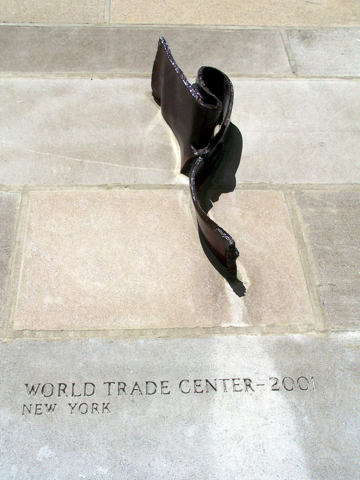 Remains of the World Trade Center on the Tribune Tower in Chicago.